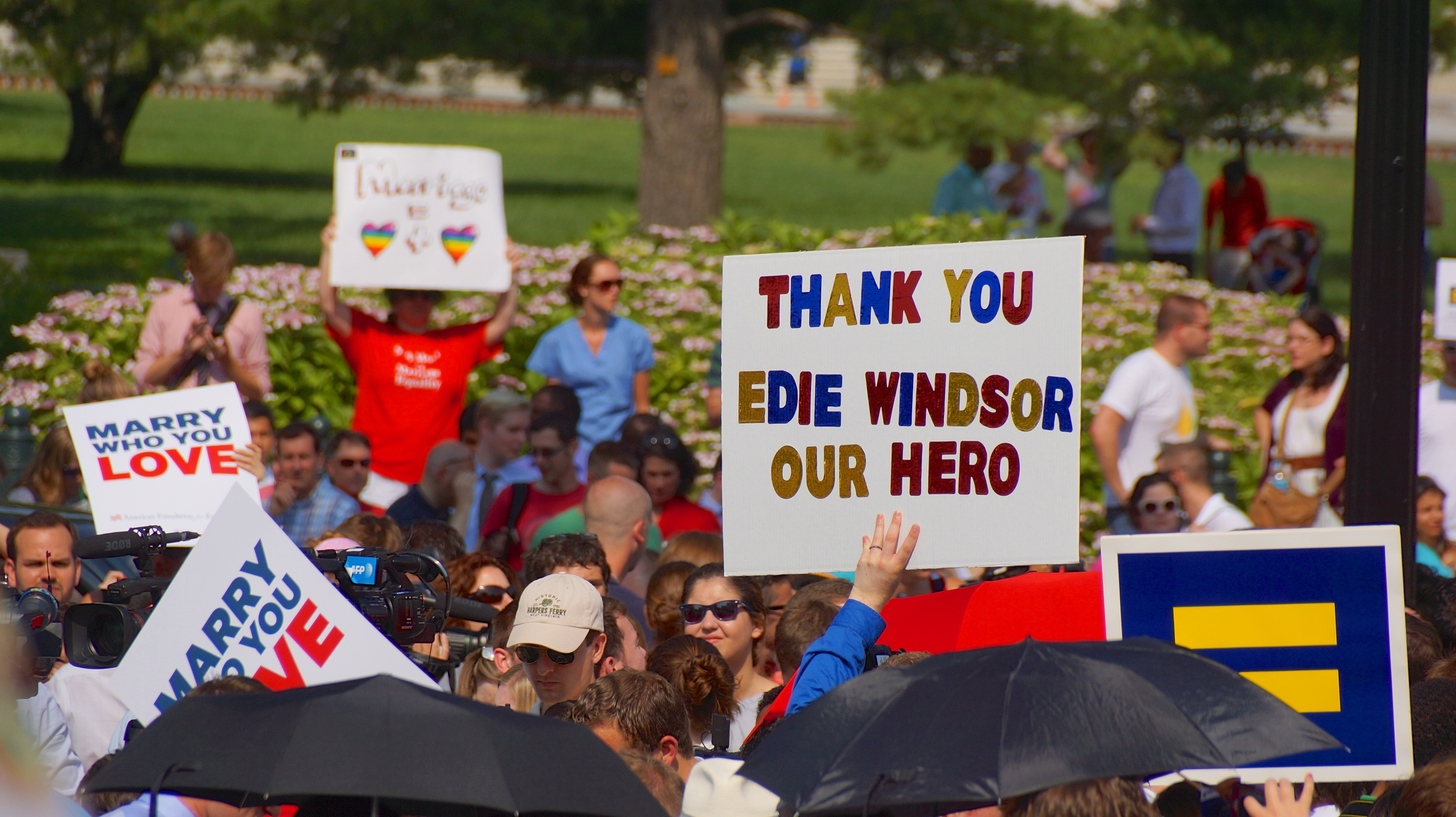 Sign showing support for Edie Windsor at a marriage equality rally in the United States.